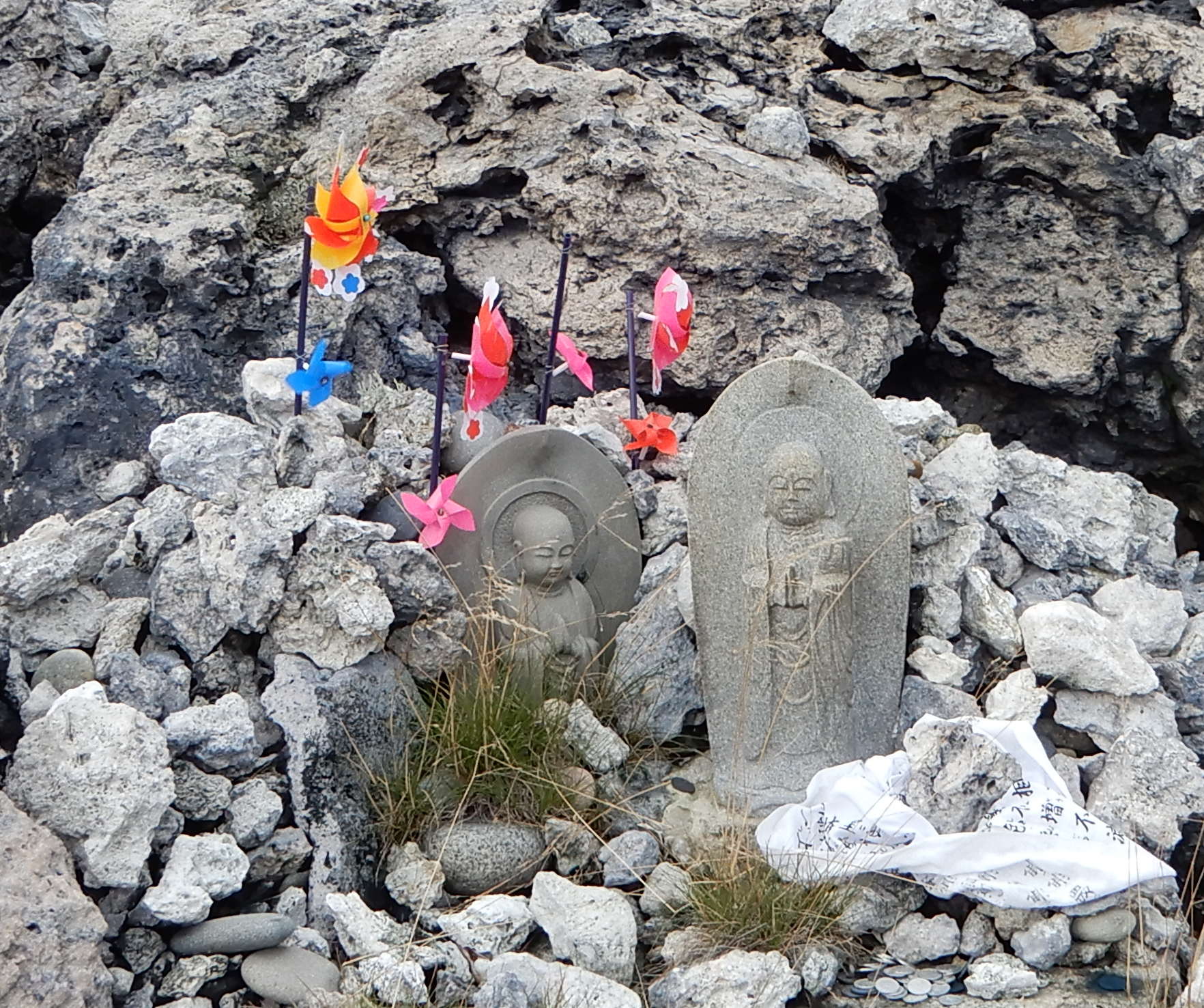 Jizos, and pinwheels for memorial service for the dead, and for showing the direction of the wind. This photo was taken at at OSOREZAN, or Mount Osore, Aomori Prefecture, Japan. containing sulphurous gas.